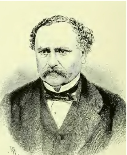 Bethel Henry Strousberg (1823–1884)